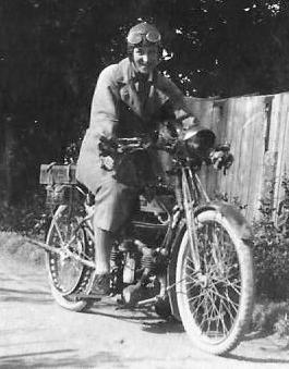 Scan by the submitter of a photo of my mother Doris Turnbull on her Douglas TT 2 3/4 horse power motorcycle when she lived in Estavayer le Lac, Neuchatel, Switzerland in 1923.